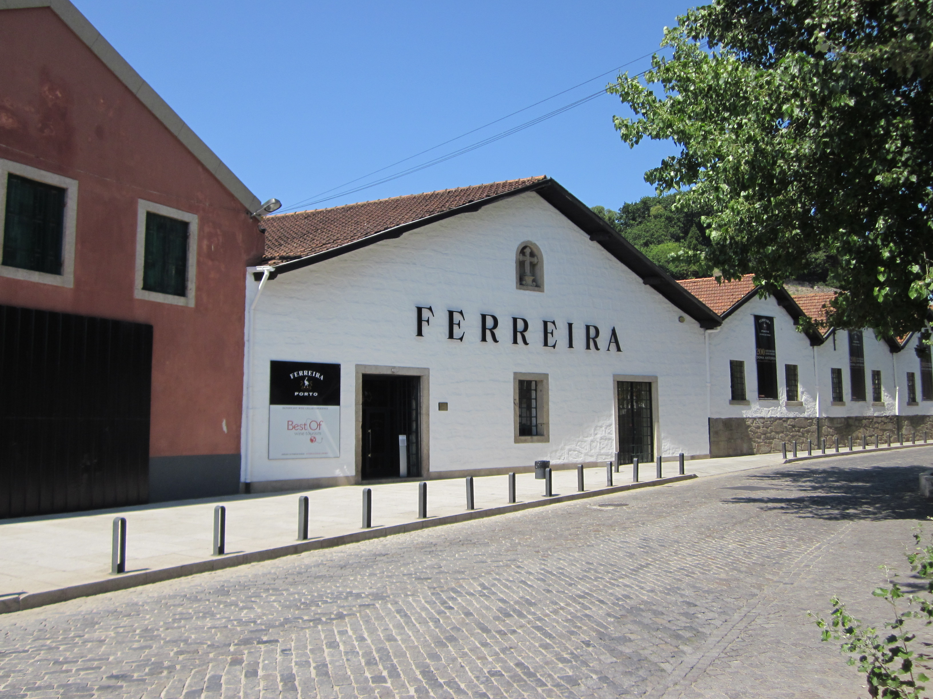 Ferreira port wine cellars, Vila Nova de Gaia, Portugal.